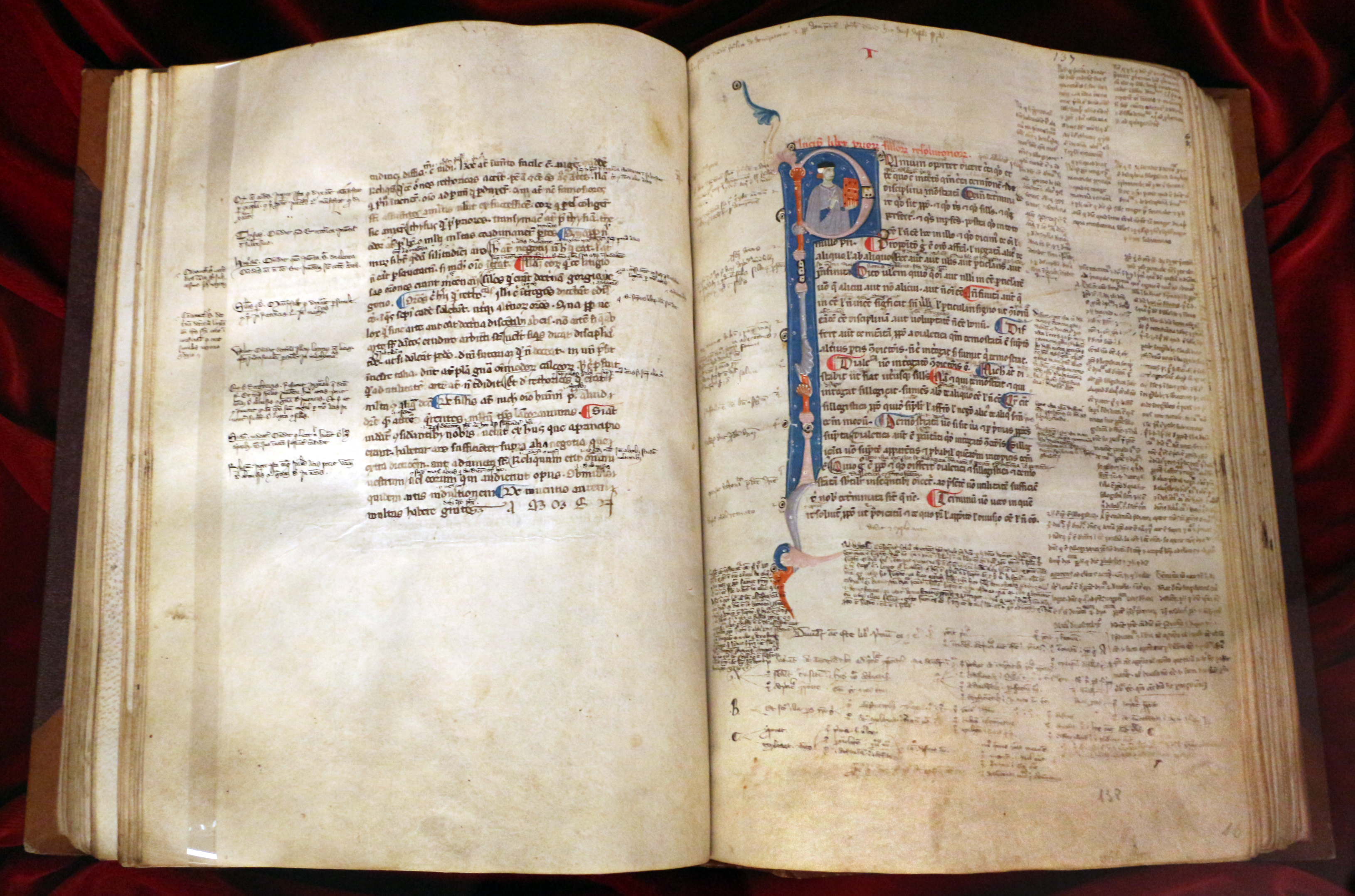 Biblioteca Medicea Laurenziana manuscripts